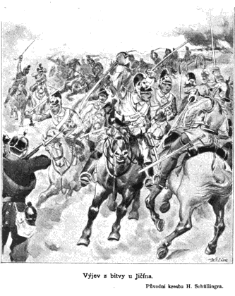 Battle of Gitschin during Austro-Prussian War. An illustration to book Válka z roku 1866 v Čechách, její vznik, děje a následky (1866 War in Bohemia - its origins, events and consequences) by Servác Heller (1845 - 1922)